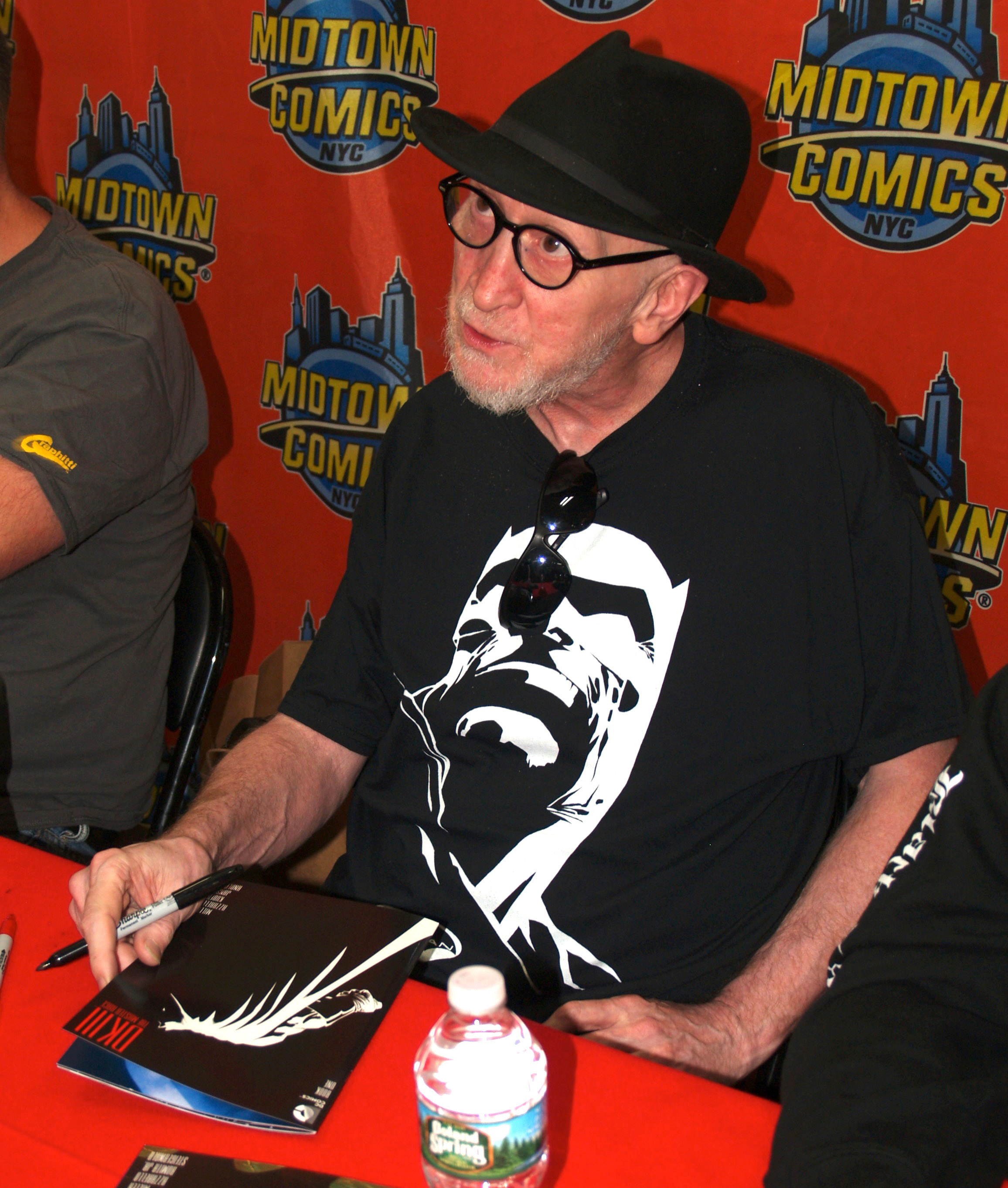 Comics writer/artist Frank Miller sigining a copy of The Dark Knight III: The Master Race #1 during an appearance at Midtown Comics Downtown September 17, 2016, the third annual Batman Day, when DC Comics celebrates the creation of the character Batman. This photo was created by Luigi Novi. It is not in the public domain, and use of this file outside of the licensing terms is a copyright violation.